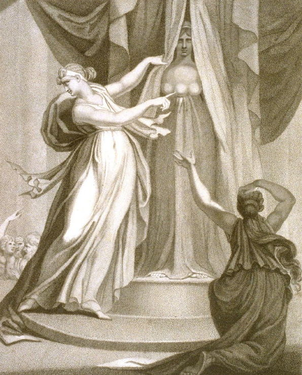 Frontispiece to Erasmus Darwin's poem The Temple of Nature, an engraving based on a drawing by Johann Heinrich Füssli.